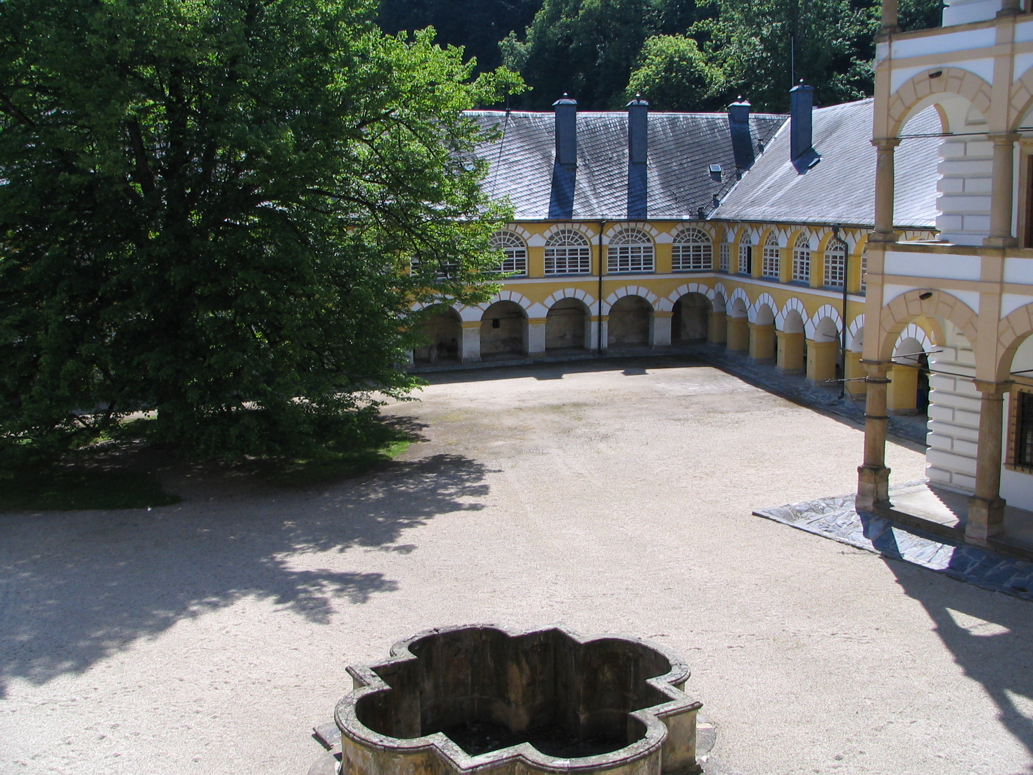 Courtyard of Velké Losiny chateau – view from the northern side